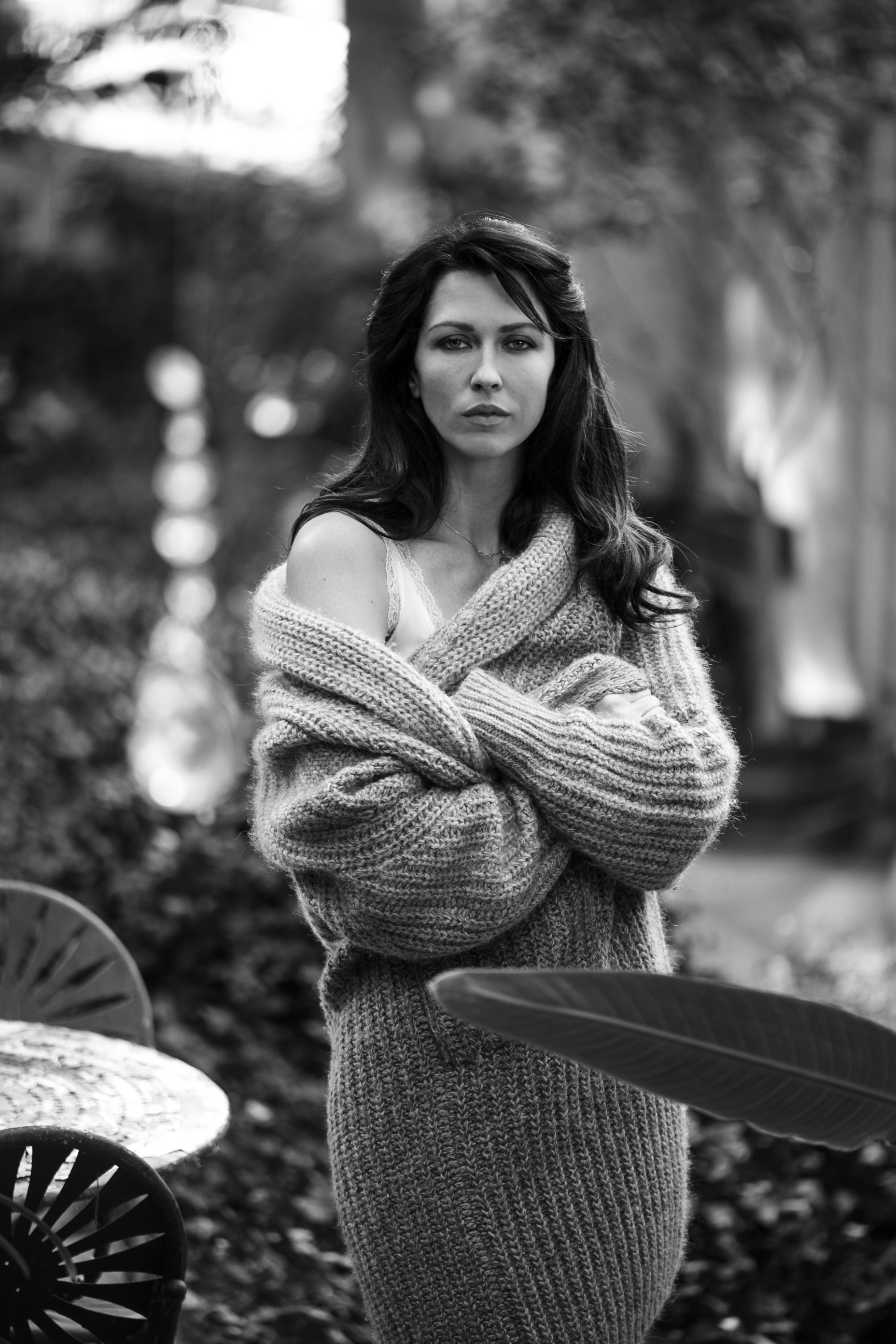 portrait of actress and writer, Margo Stilley, Beverly Hills 2015